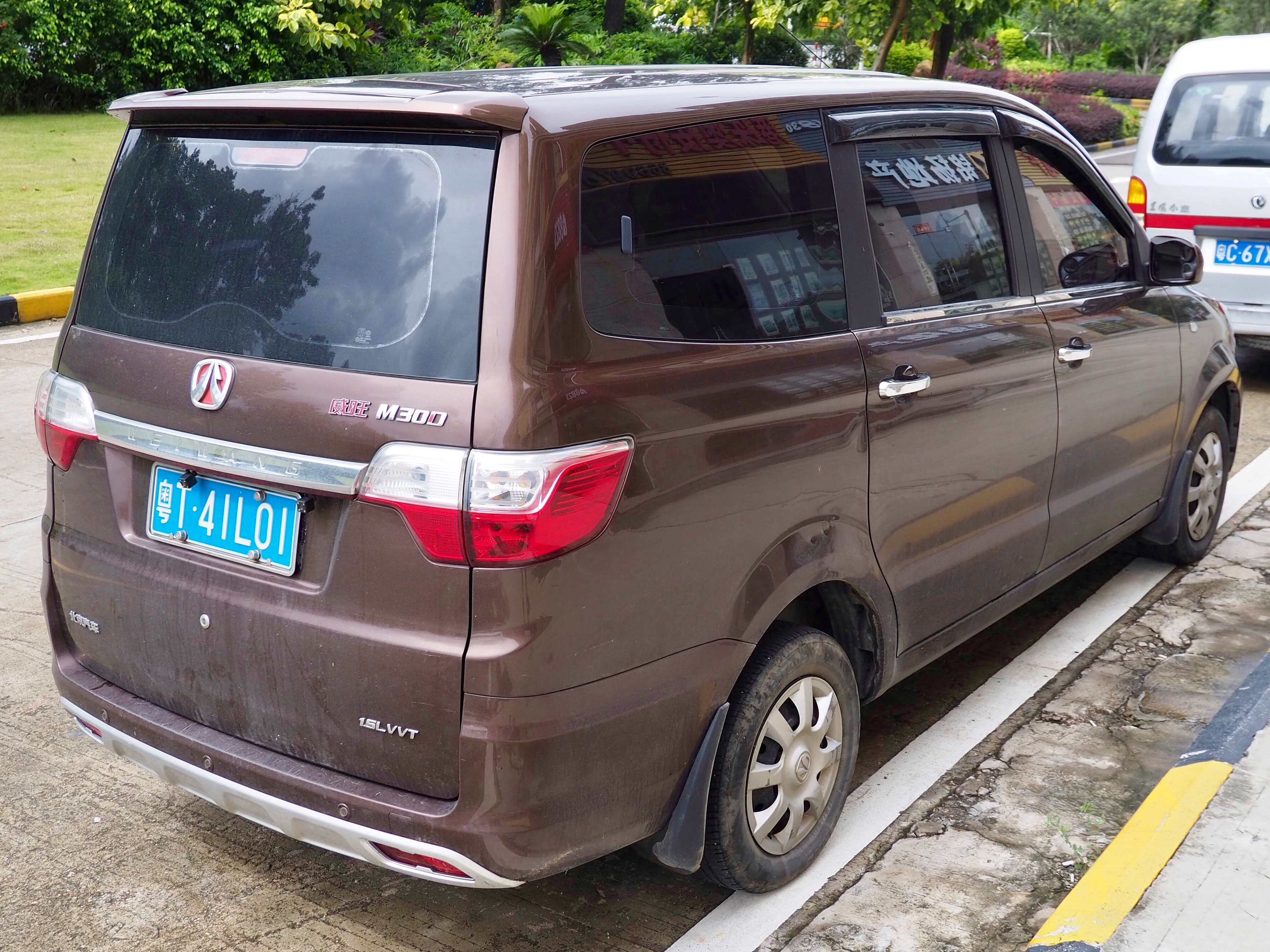 A 2015 BAIC Weiwang M30D photographed in Zhongshan, Guangdong province, China. 中文（中国大陆）: 一辆2015年的北汽威旺M30D，拍摄于中国广东省中山市。